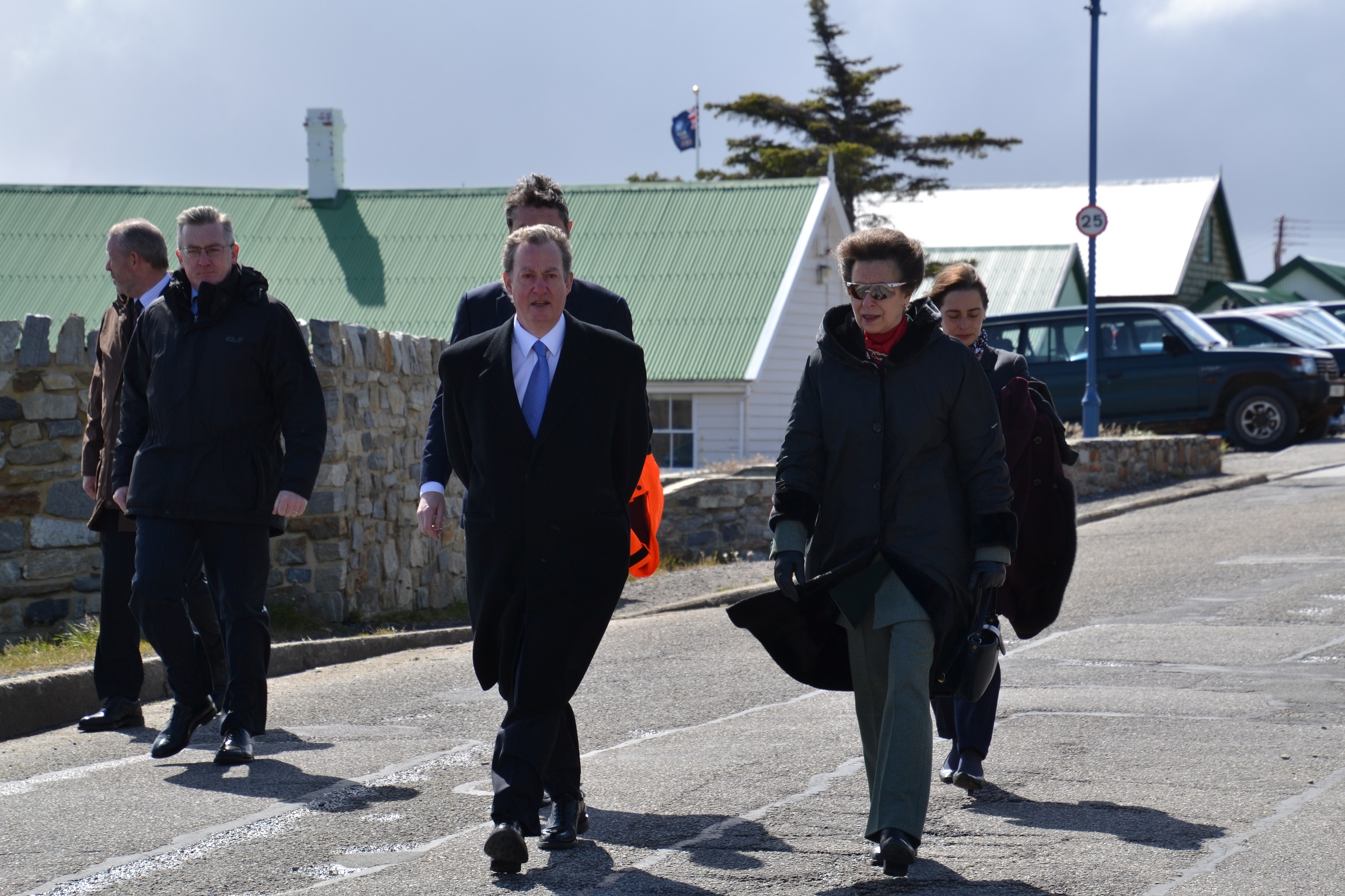 Visit to the Falkland Islands by HRH The Princess Royal